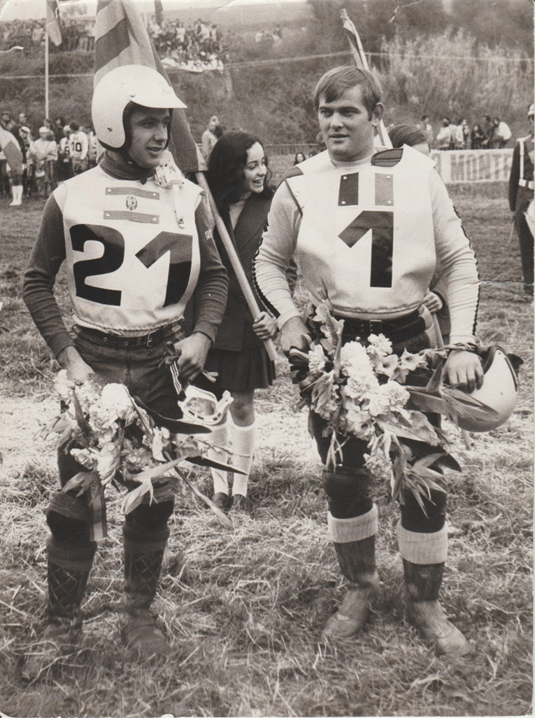 Domingo Gris (21) and Joël Robert (1) at Spanish Motocross 250cc Grand Prix of 1973